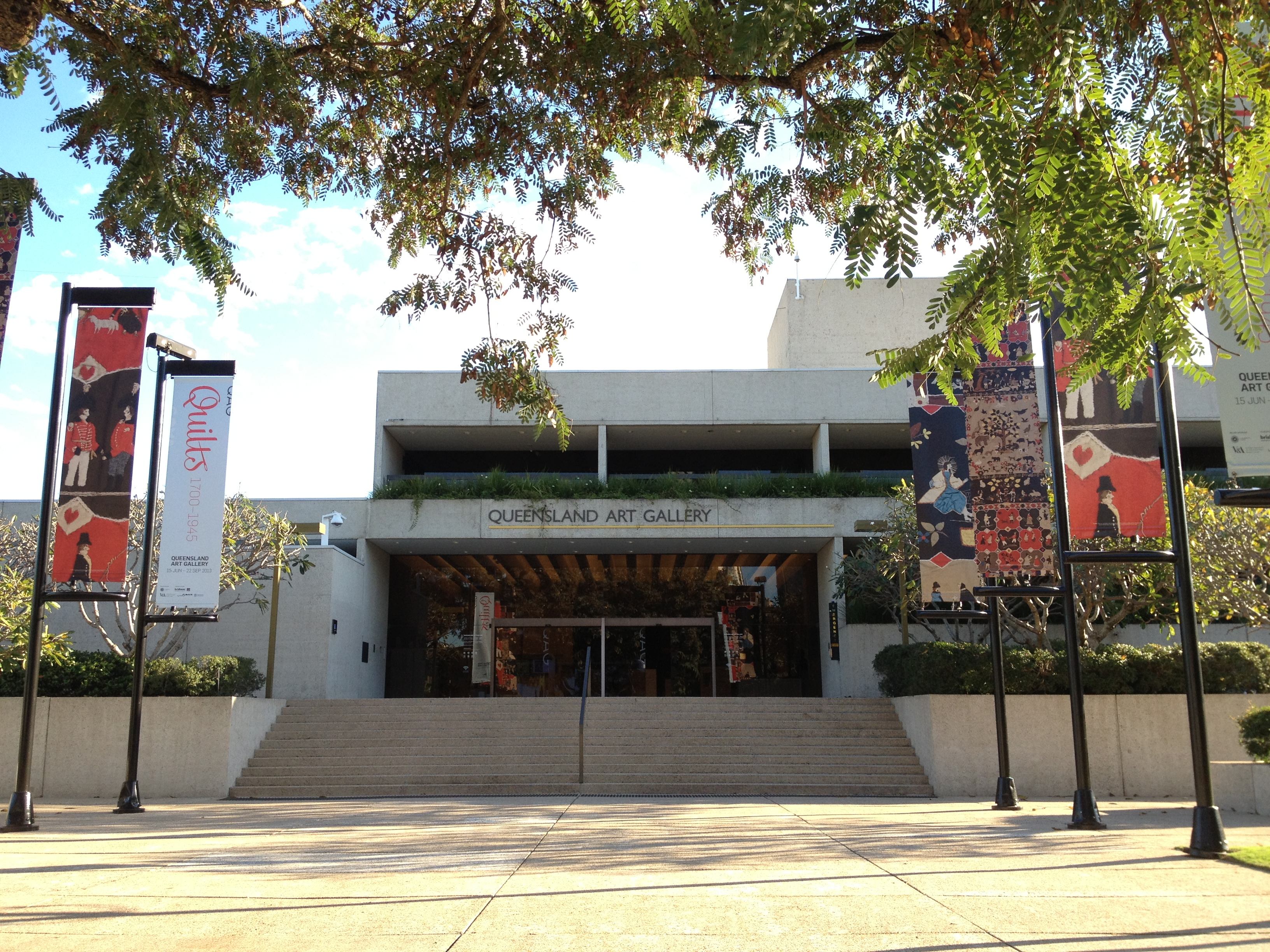 Ground floor entrance to Queensland Art Gallery